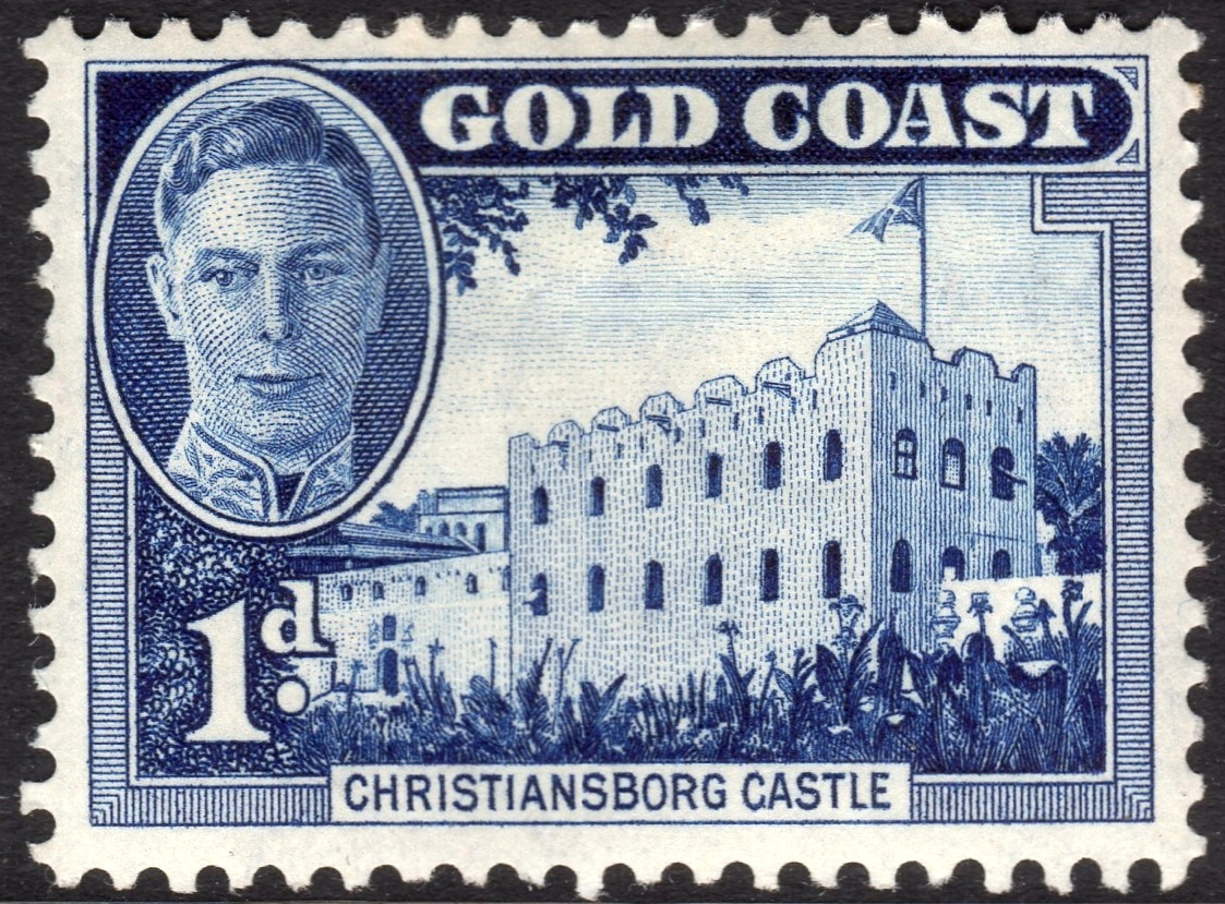 Christiansborg Castle on stamp of Gold Coast.